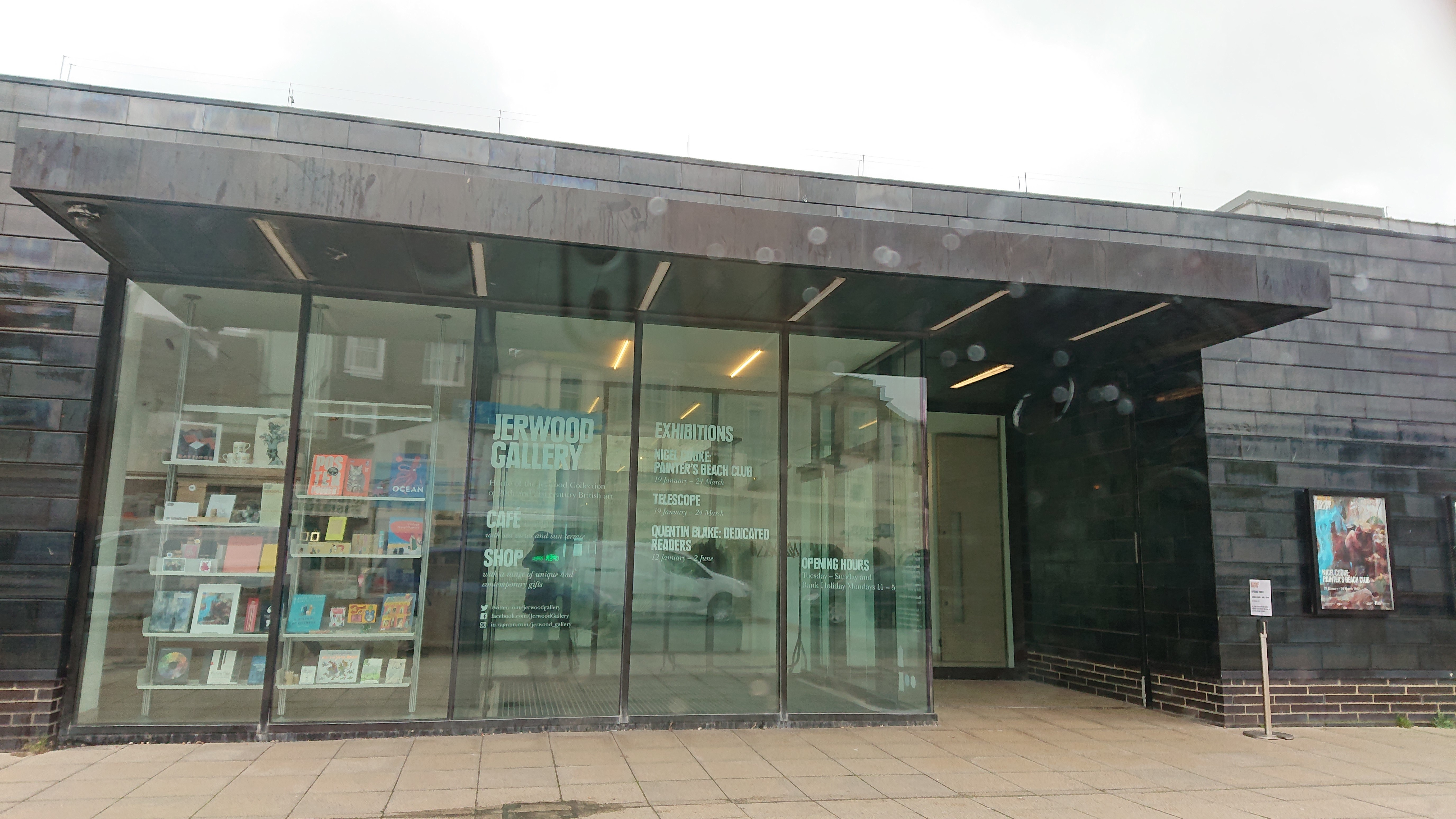 Front Entrance of the Jerwood Gallery